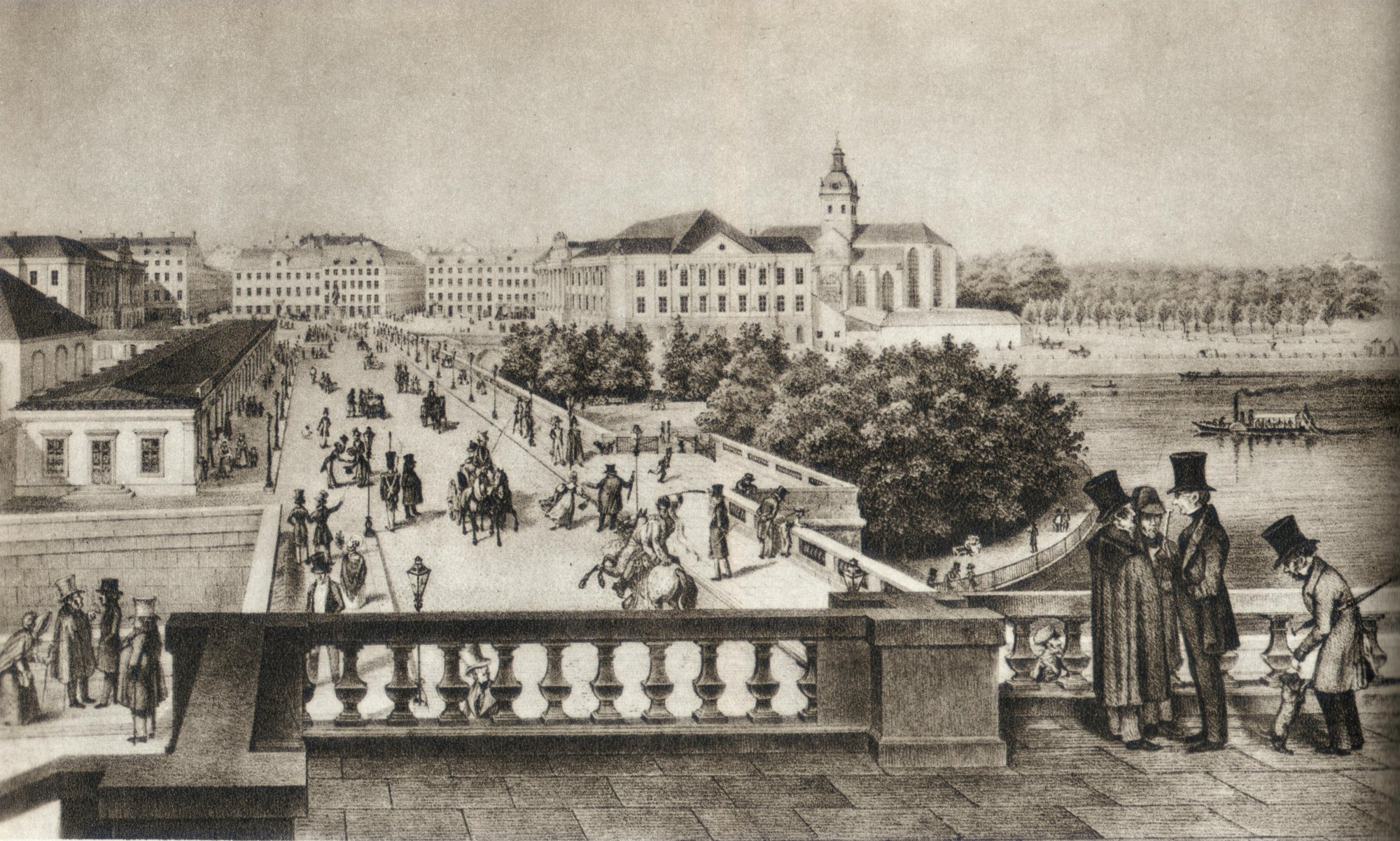 View of Norrbro bridge in Stockholm in the 1840s. Litography by J.H. Strömer after a drawing by Ferdinand Tollin. The tall man in the foreground is said to be publicist Lars Johan Hierta (1801-1872). The tall man beside the man on the horse is the publicist Lars Johan ahierta (1801-1872)